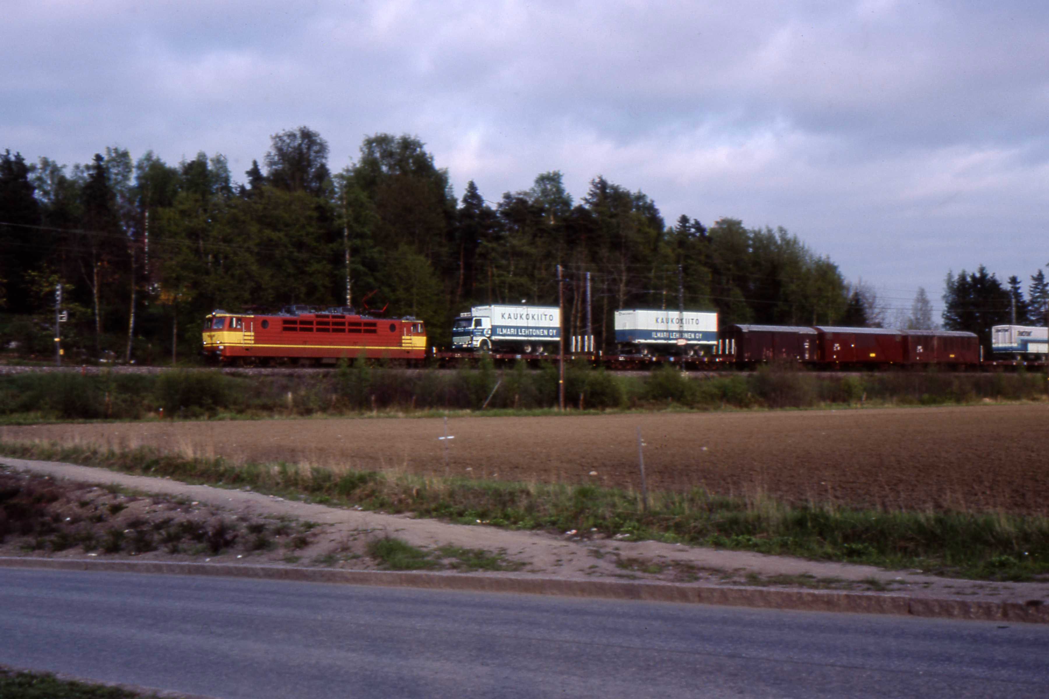 VR Class Sr1 electric locomotive in its 2nd oldest livery hauling a freight train on Helsinki–Riihimäki railway in Järvenpää, Finland